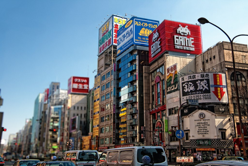 HDR + tilt shift effect using Alien Skin's Bokeh software. 1x exposure HDR Note: This location seems not Akihabara but Kabukichō, Tokyo. The load sign on middle right can reed "歌舞伎町" (Kabukichō, Tokyo) The shop sign on lower right can reed "質・買取・販売 銀蔵 -GINZO-" (pawnshop Ginzō). According to Ginzō's home page, address of this shop is: 銀蔵 新宿2号店 (Ginzō, Shinjuku 2nd shop) 東京都新宿区新宿3丁目22-8 (3-22-8 Shinjuku, Shinjuku-ward, Tokyo) You can examine above address on various Map services. Also you can see almost same view near the above address, using Google Street View.